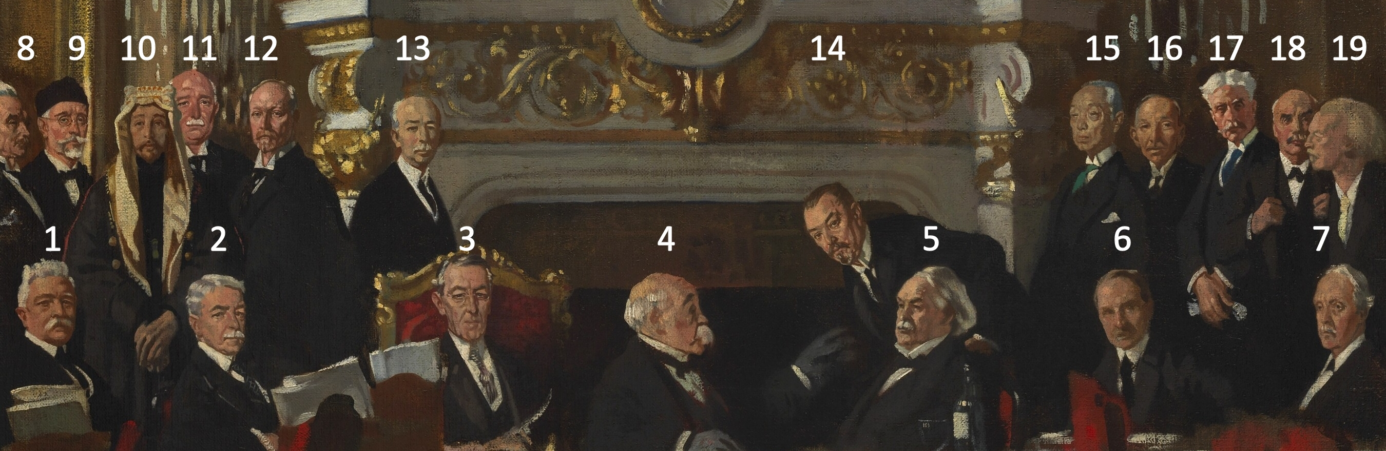 Delegates sitting and standing around a table. The people depicted are: Vittorio Emanuele Orlando, former Prime Minister of Italy Robert Lansing, US Secretary of State Woodrow Wilson, President of the United States Georges Clemenceau, Prime Minister of France David Lloyd George, British Prime Minister Andrew Bonar Law, British Lord Privy Seal and later Prime Minister Arthur Balfour, British Secretary of State for Foreign Affairs and former British Prime Minister Paul Hymans, Belgian Minister for Foreign Affairs Eleftherios Venizelos, Prime Minister of Greece Emir Feisal, from Syria, later King of Syria and then King of Iraq William Massey, Prime Minister of New Zealand General Jan Smuts, Prime Minister of South Africa Colonel Edward M. House General Louis Botha, former Prime Minister of South Africa Prince Saionji Kimmochi, genrō and former Prime Minister of Japan Billy Hughes, Prime Minister of Australia Sir Robert Borden, Prime Minister of Canada George Nicoll Barnes, British Minister Without Portfolio representing Organised Labour Ignacy Jan Paderewski, Polish Minister of Foreign Affairs